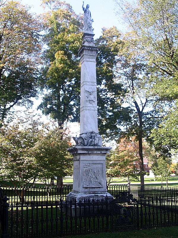 The Minisink Monument in Goshen, New York, marking the mass grave of the local casualties of the Battle of Minisink.